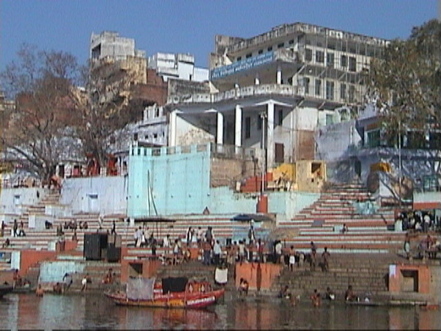 Hindu culture, have attributed supreme importance to the preservation of tradition Classical civilizations, and especially the Indian one, have attributed supreme importance to the preservation of tradition. Its central idea was that social institutions, scientific knowledge and technological applications need to use "heritage" as a "resource". Using contemporary language, we would say that ancient Indians considered, as social resources, both economic assets (like natural resources and their exploitation structure) and factors promoting social integration (like institutions for preserving knowledge and maintaining civil order). Ethics considered that what had been inherited should not be consumed, but should be handed over, possibly enriched, to successive generations. This was a moral imperative for all, except in the final life stage of sannyasa